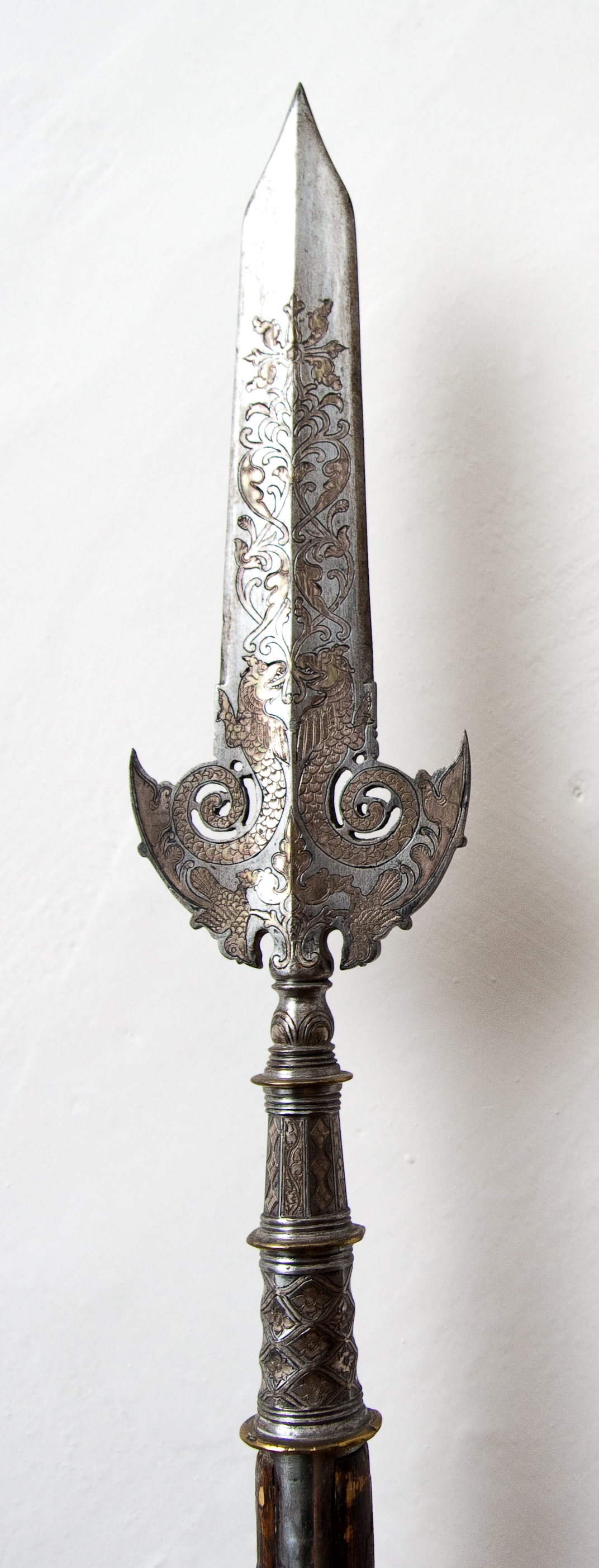 Ahlefeldts partisan: A polearm that was used in Europe during medieval times. This particular one was used by the danish officer Claus von Ahlefeldt (1614-1674) during a swedish attack on Copenhagen in February 1659.